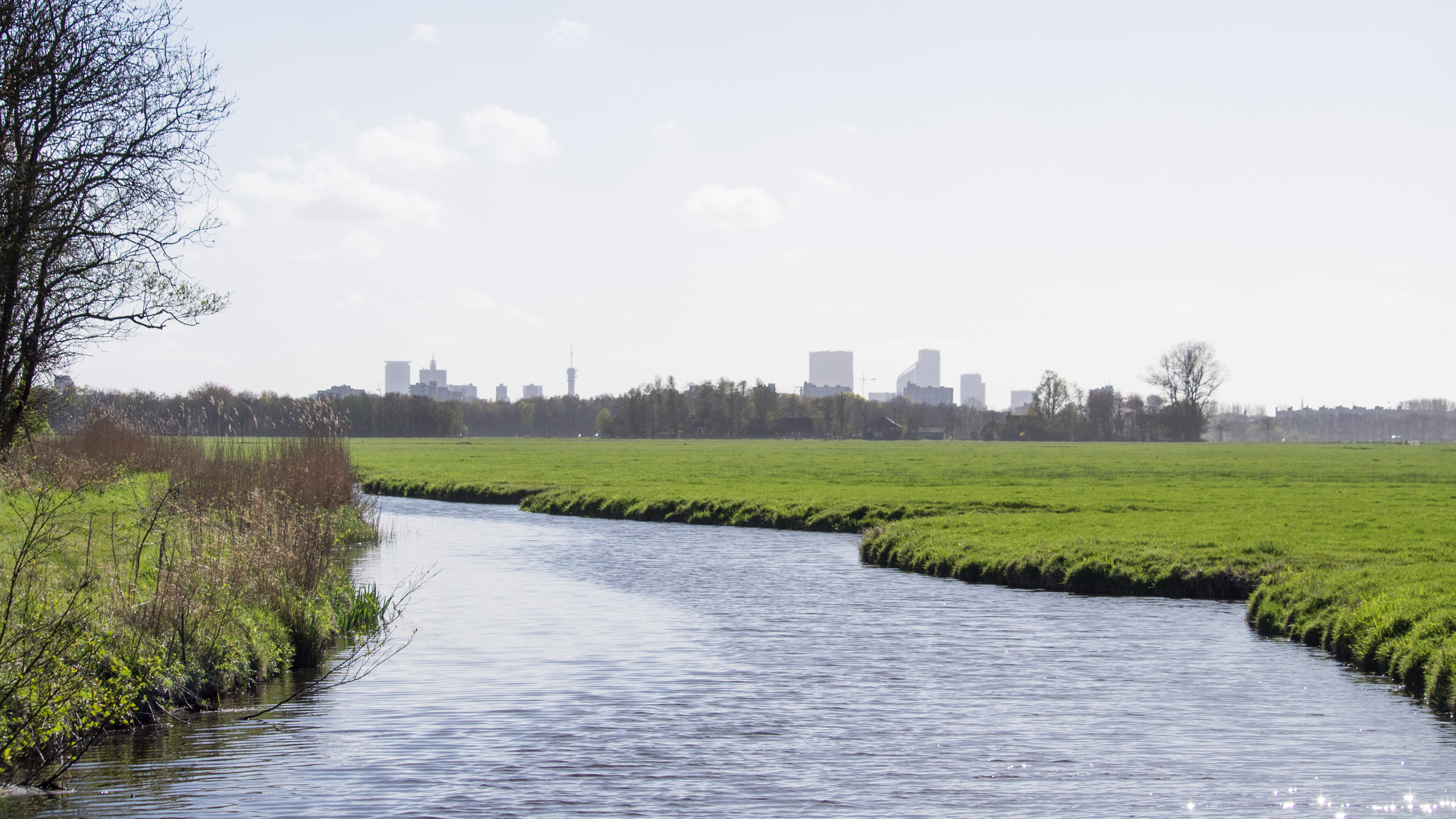 The Duivenvoordse en Veenweidse Polder was reclaimed in the Middle Ages. It is now a protected area. Towards the southwest, in the distance, are the high rises of The Hague.